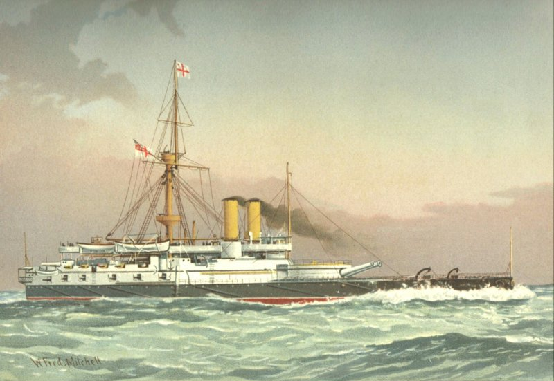 drawing of HMS Victoria